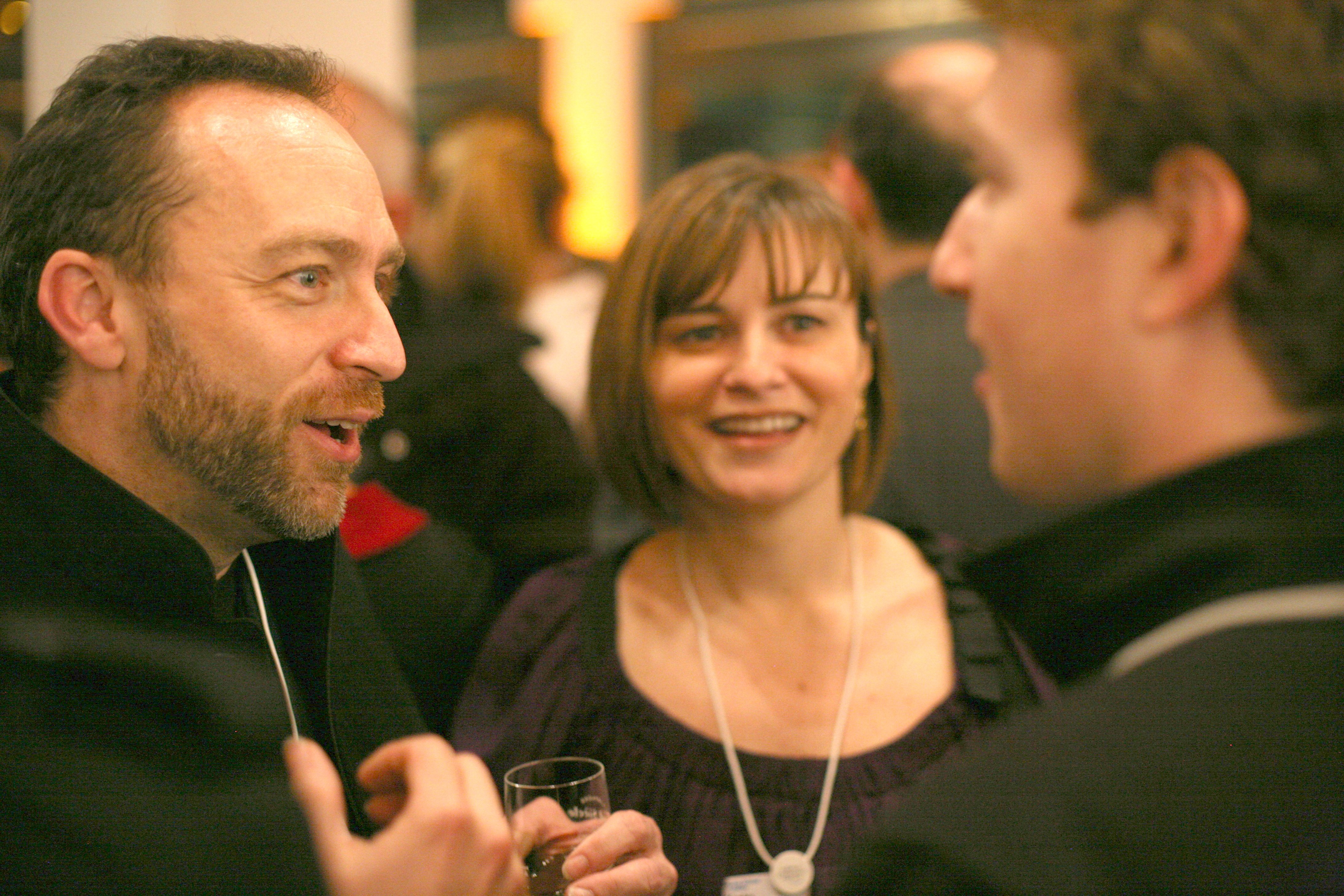 Jimmy Wales is founder of Wikipedia and meets Mark Zuckerberg, founder of Facebook with Kate Roberts, founder of YouthAIDS in the middle..